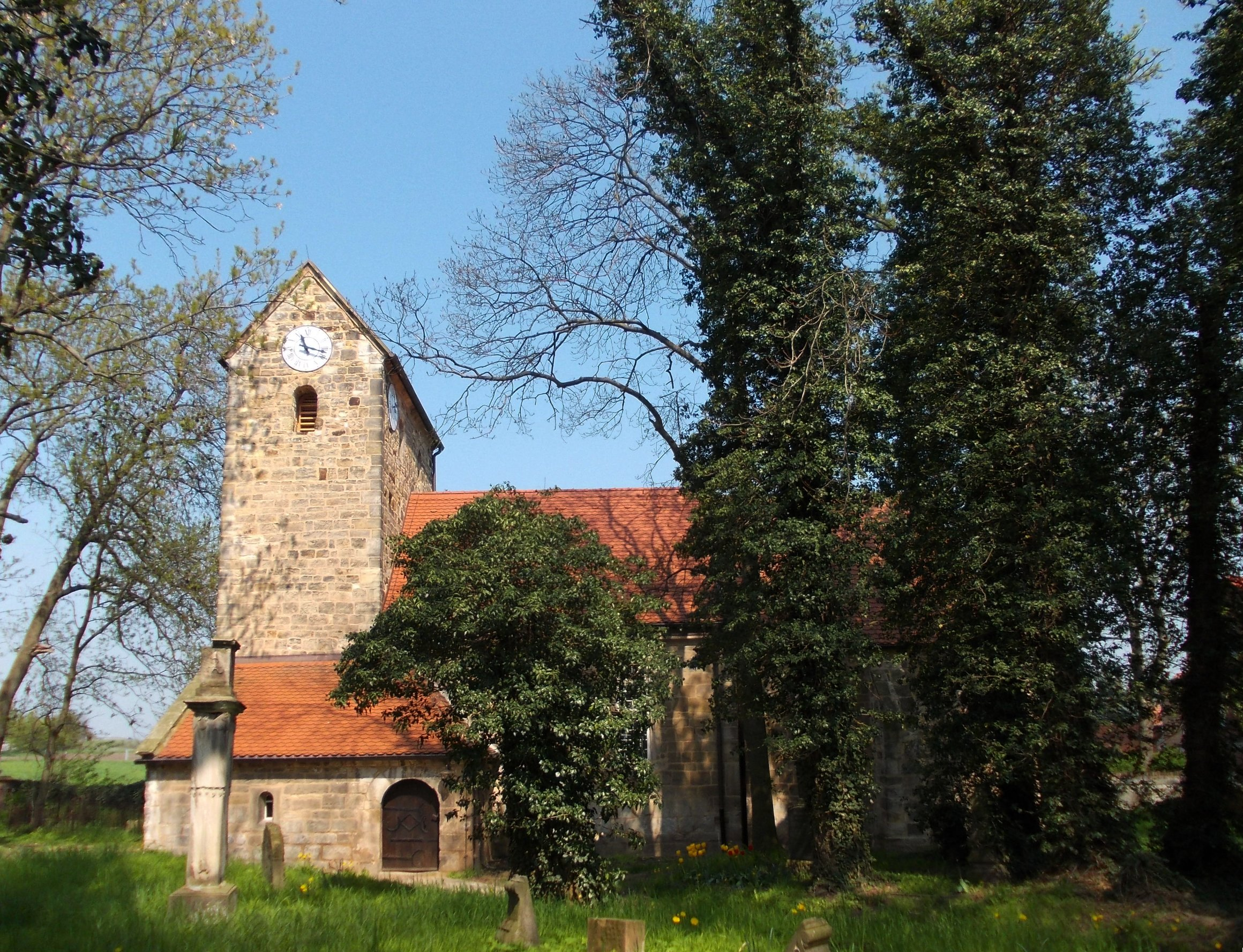 St. Mary's Church in Zorbau (Lützen, district: Burgenlandkreis, Saxony-Anhalt)